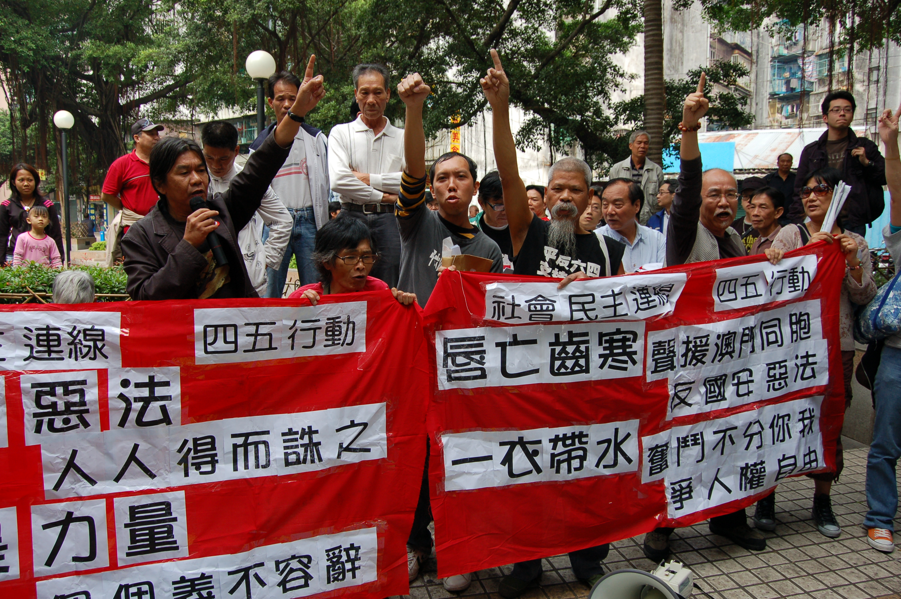 Shouting slogans at the demonstration against the Article 23 legislation in Macau